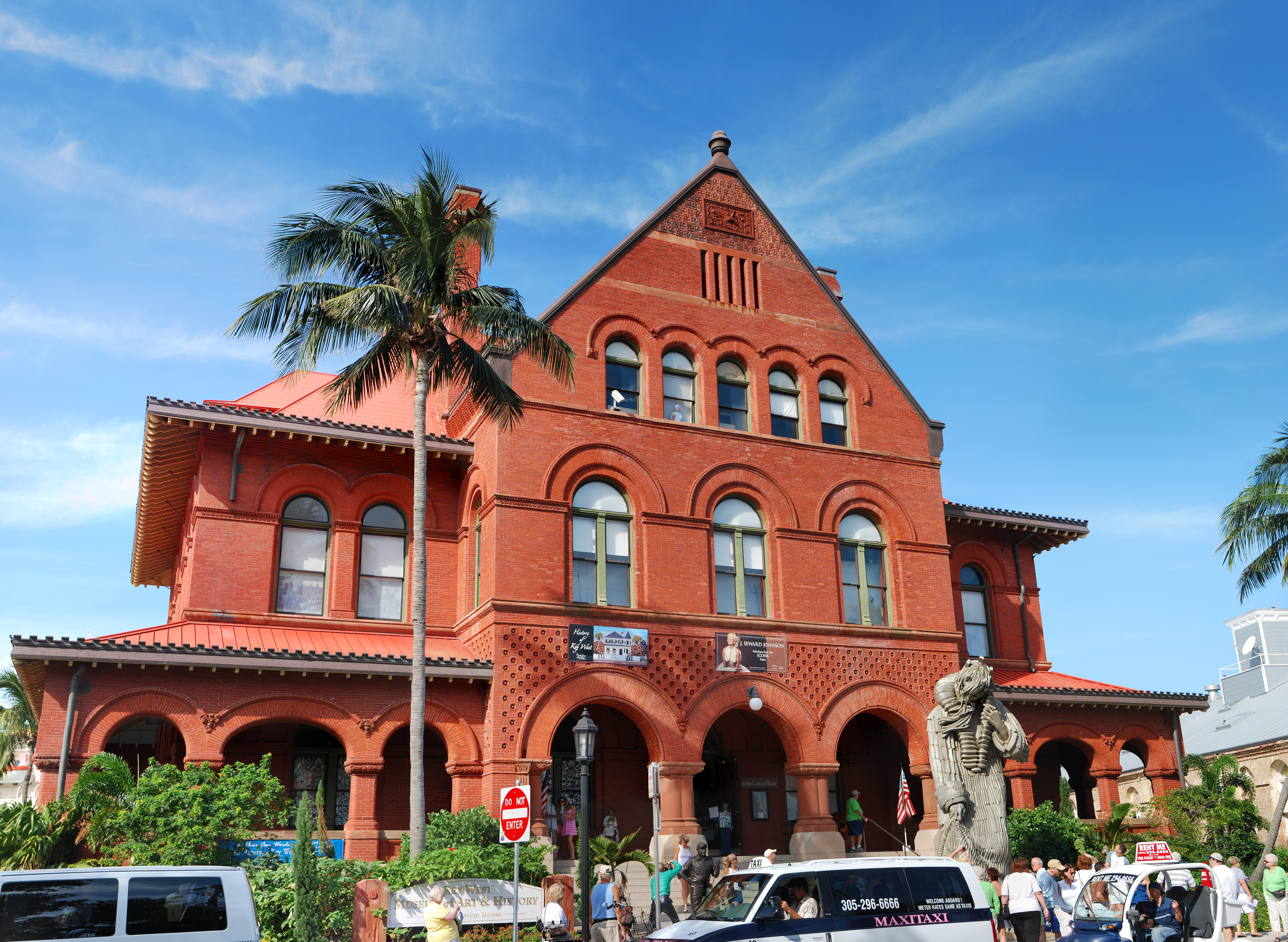 The current Key West Museum of Art & History, though formerly known as the Old Post Office and Customshouse, located in Key West, Florida